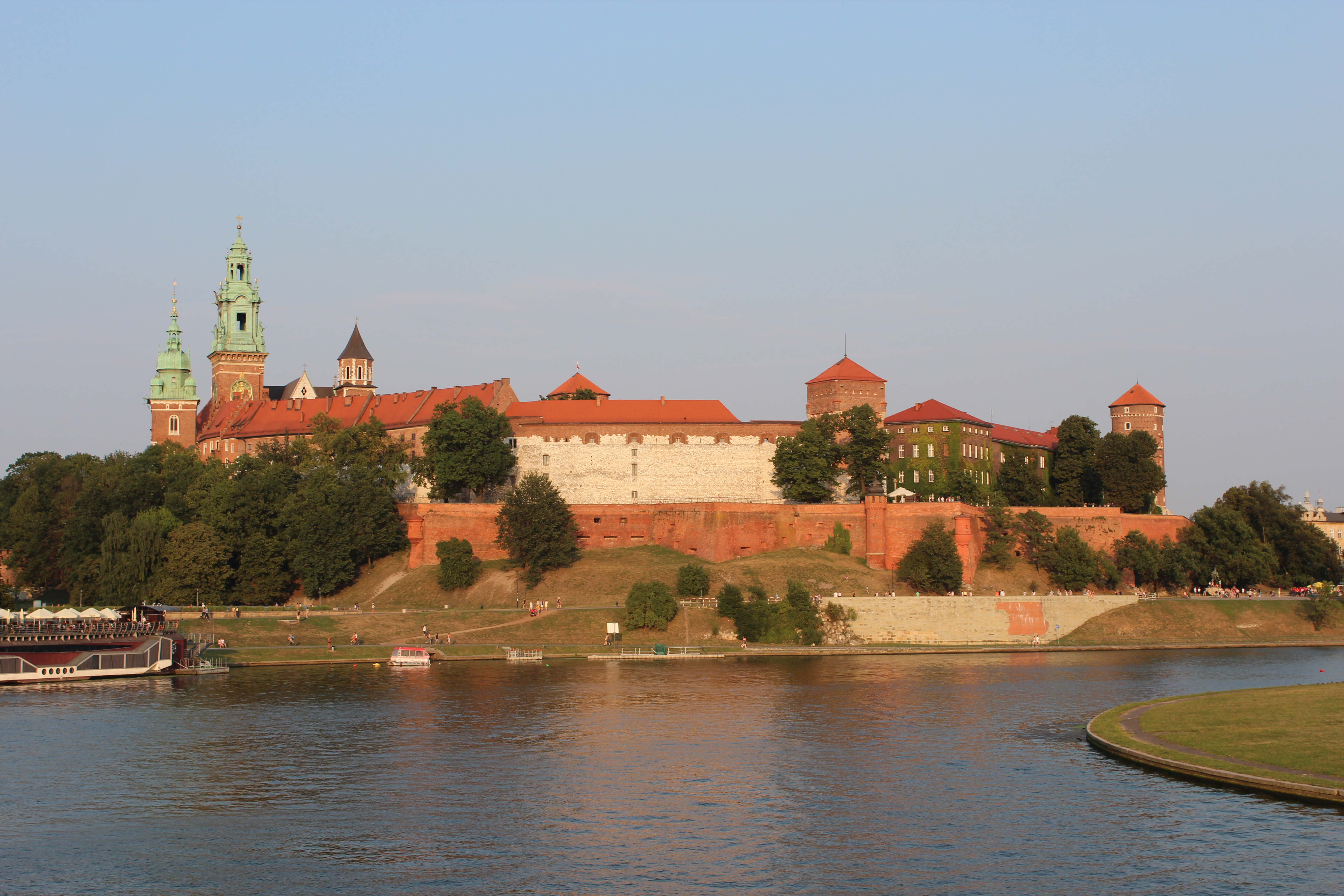 View over the Wisła (Vistula) river of Wawel, Kraków (Cracow).